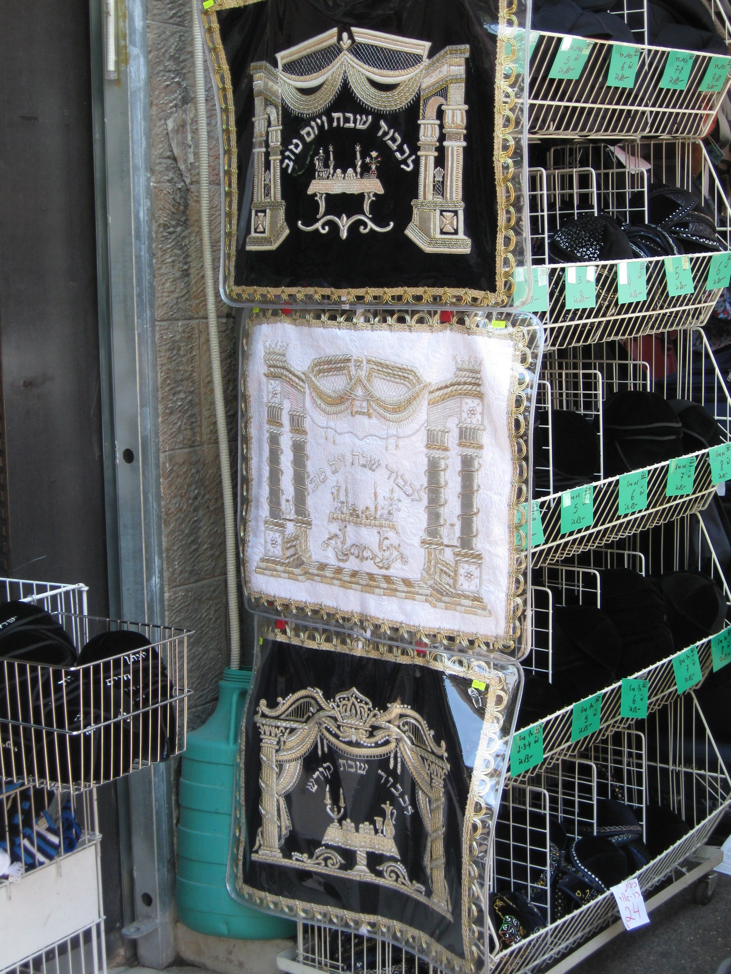 Challah covers and yarmulkes on sale outside a store in Jerusalem, Israel.